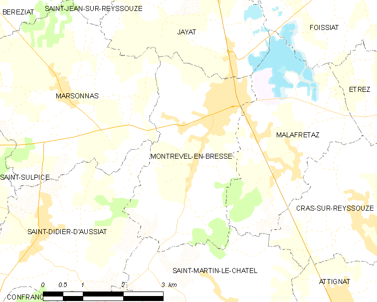 Map of French commune: Montrevel-en-Bresse Map commune FR insee code 01266.png